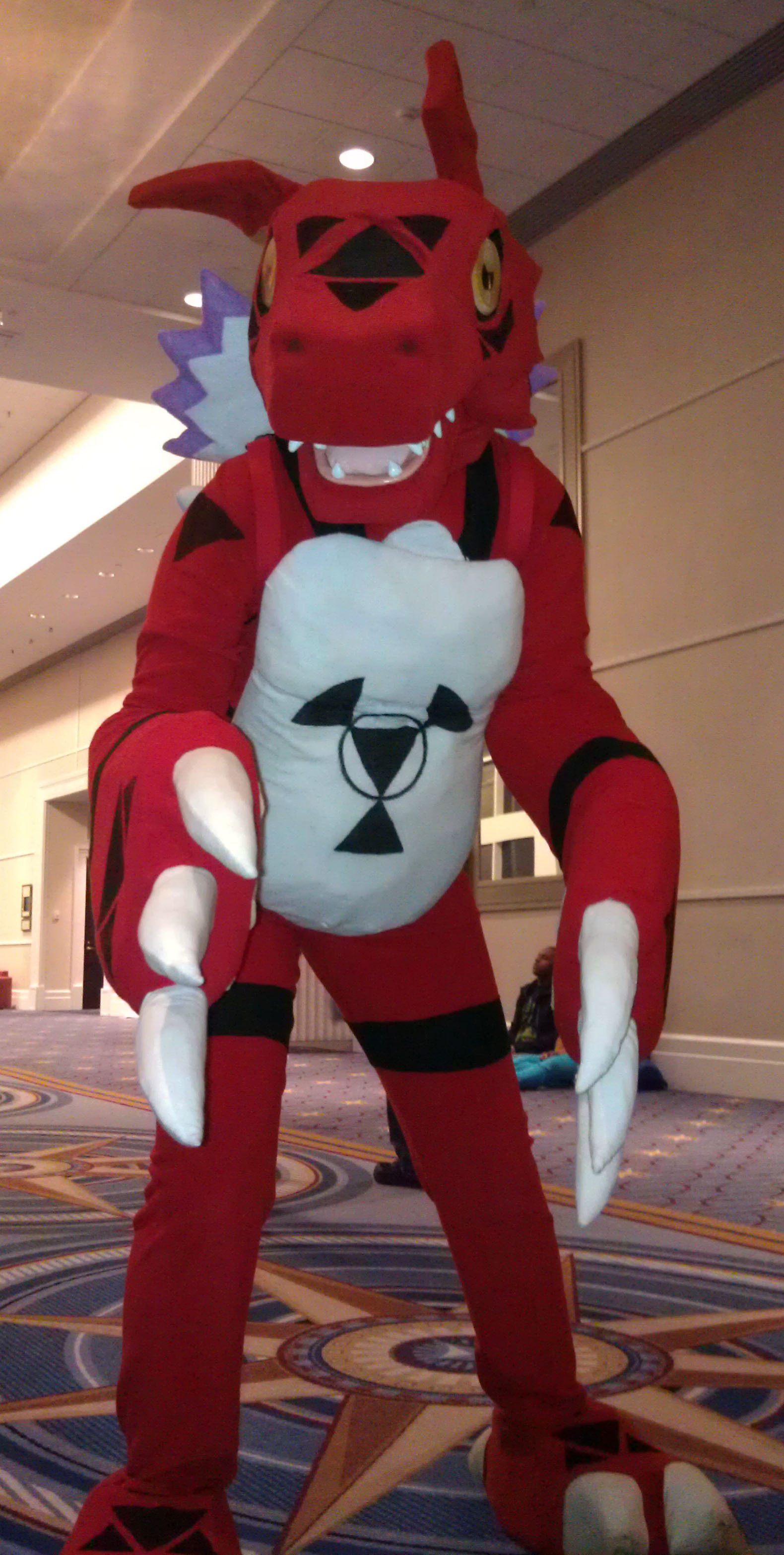 Cosplay of Guilmon.